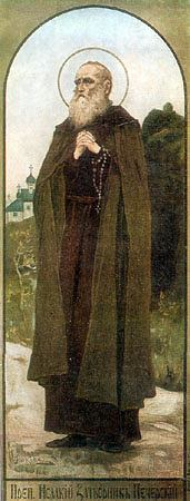 St. Isaakii Pecherskii